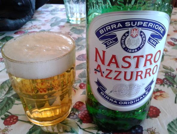 Nastro Azzurro Birra by Peroni (.66 liter bottle + unrelated glass)